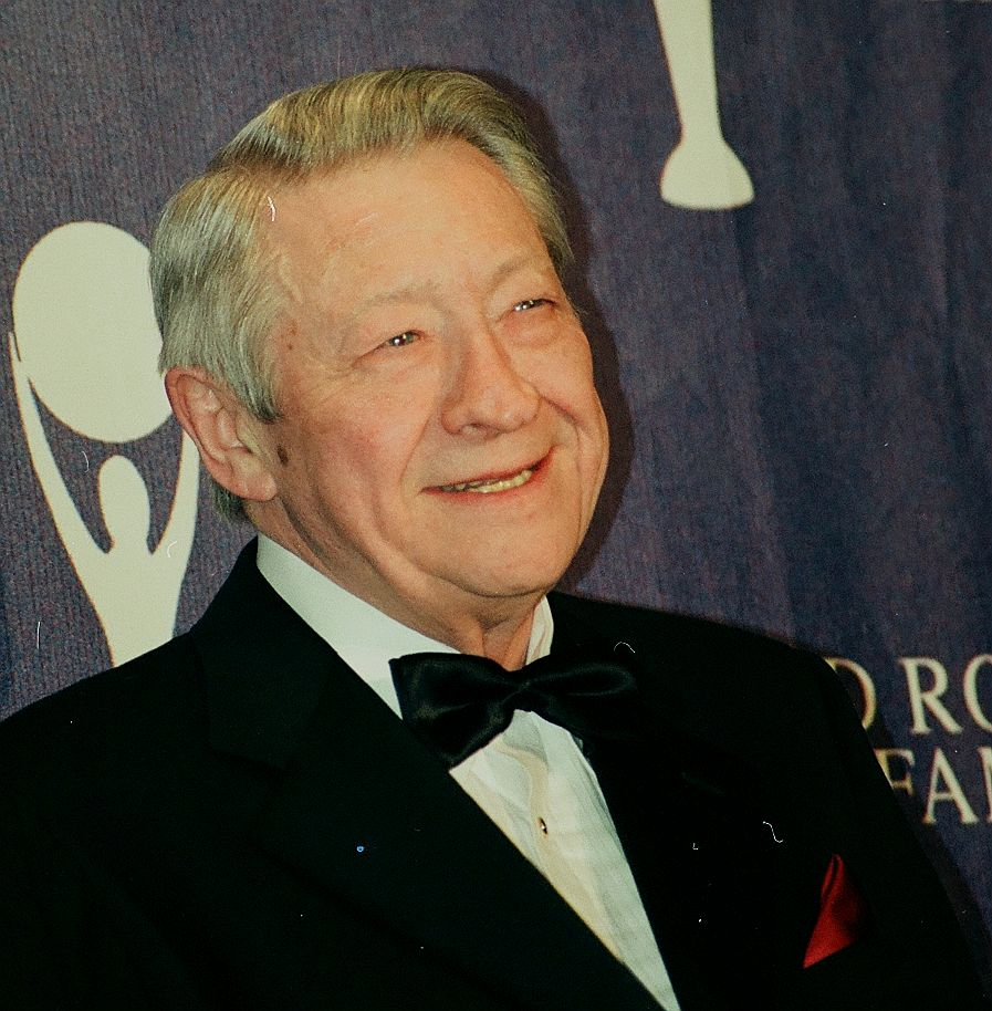 From his Rock and Roll H.O.F. induction N.Y.C. March 6, 2000